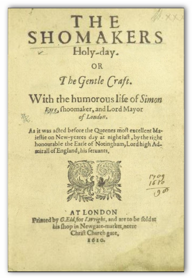 Page 7 of The Shomakers Holy-day, etc. [By Thomas Dekker.] B.L